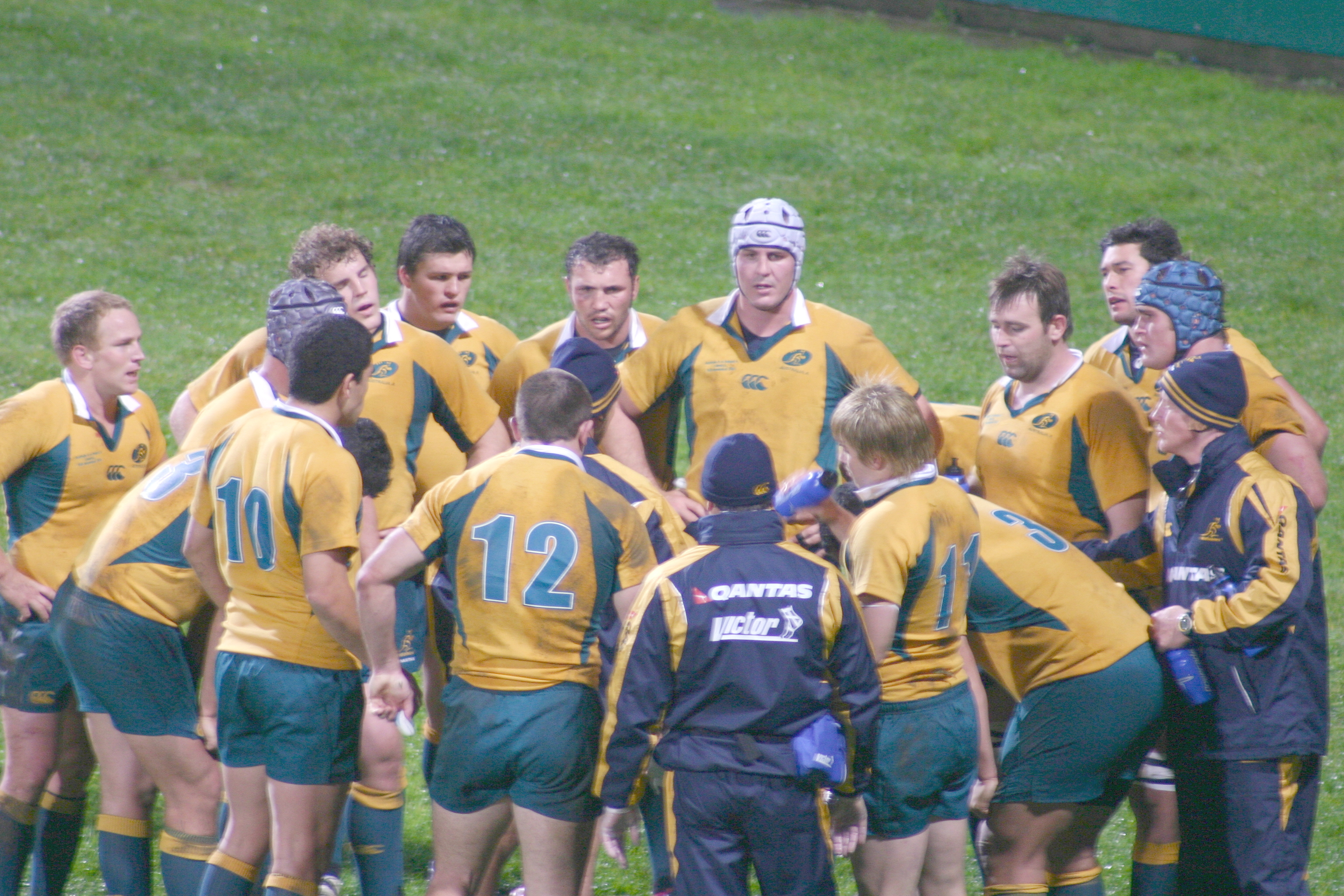 International match at Thomond Park, Limerick, between the "A" national rugby union teams of Ireland and Australia